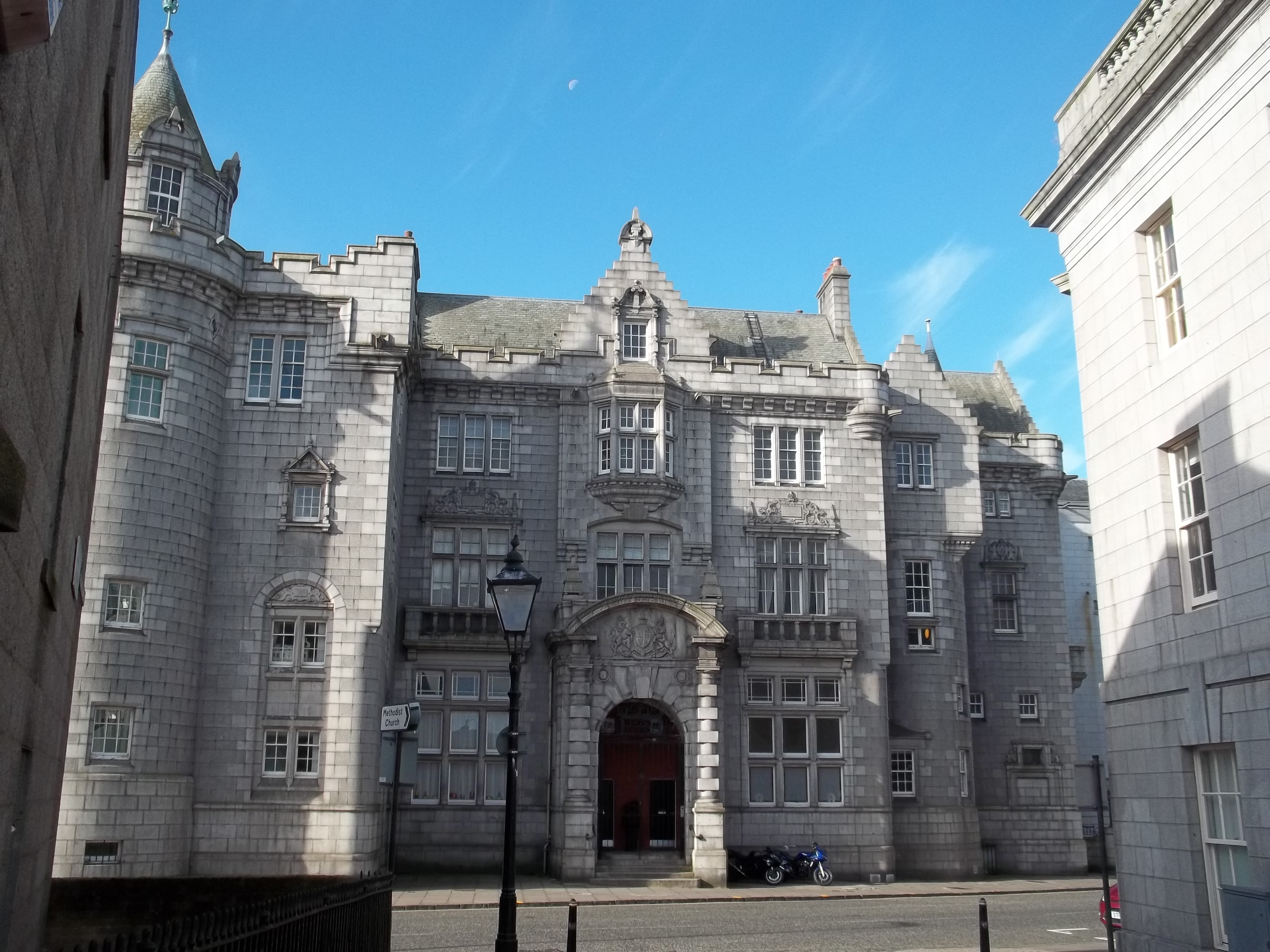 Head Post Office, Crown Street